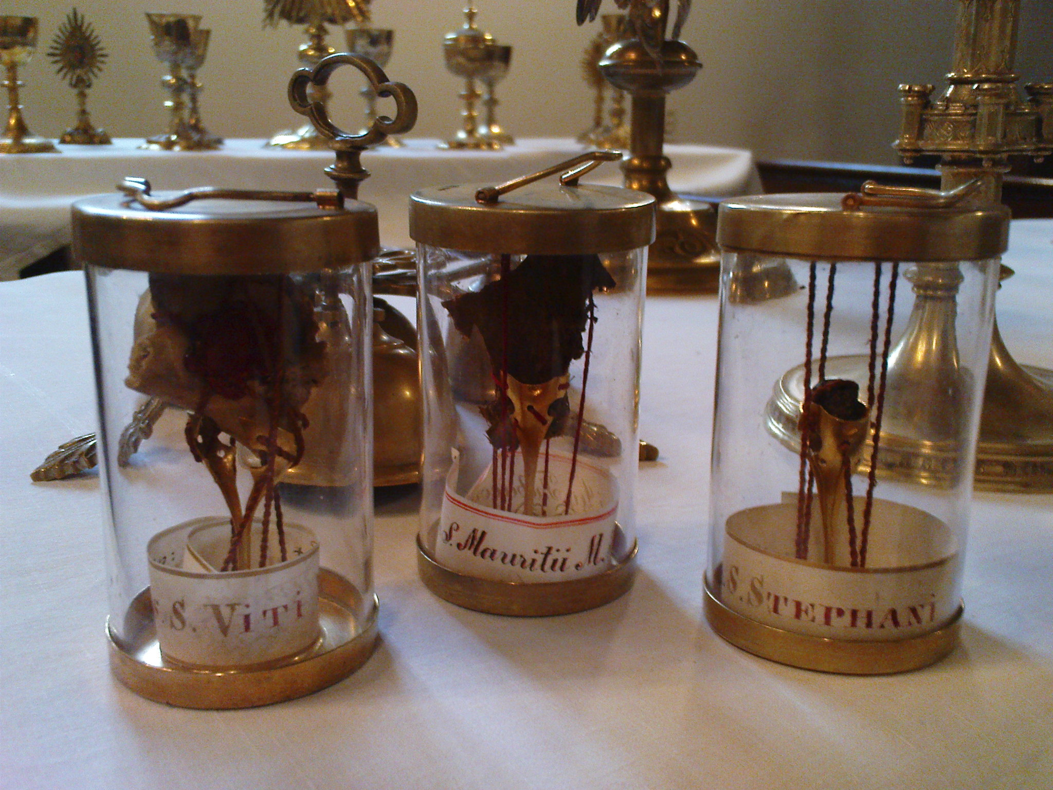 Relics of saint Vitus, Maurice and Stephen from the Church Treasure of the St. Maurice Church, Kroměříž, Czech Republic, usually not accasible for public (photo from an exposition in September 2008).